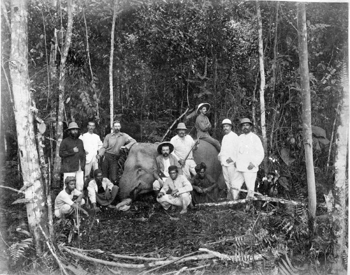 Tobaccoplanters on an elephant hunt, Sumatra